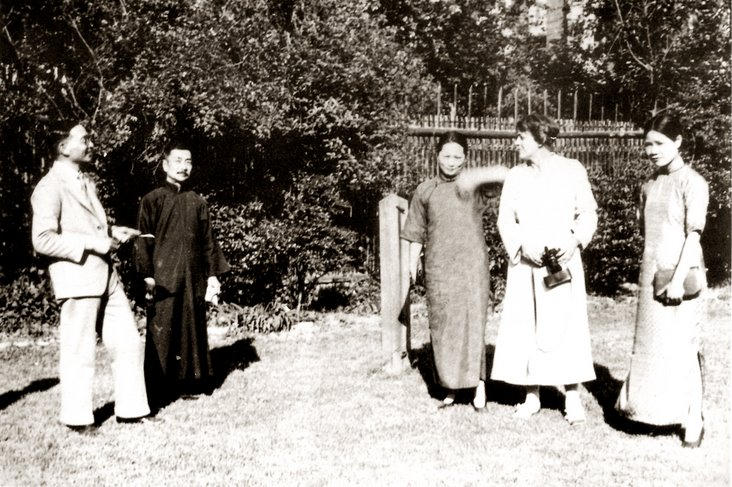 (from right to left)Li Peihua(Soong's secretary), Agnes Smedley, Soong Ching-ling, Lu Xun and Lin Yutang